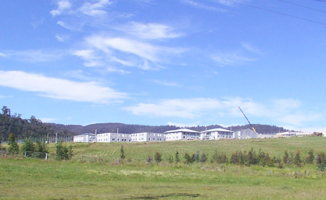 The New Risdon Complex Being built in front of the existing facility. picture taken from the East-Derwent Highway.